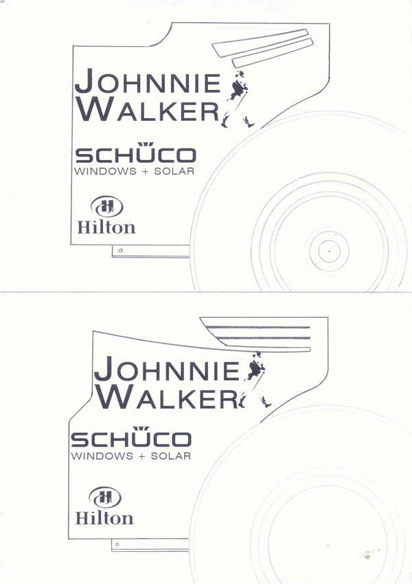 McLaren MP4-23 rear wing